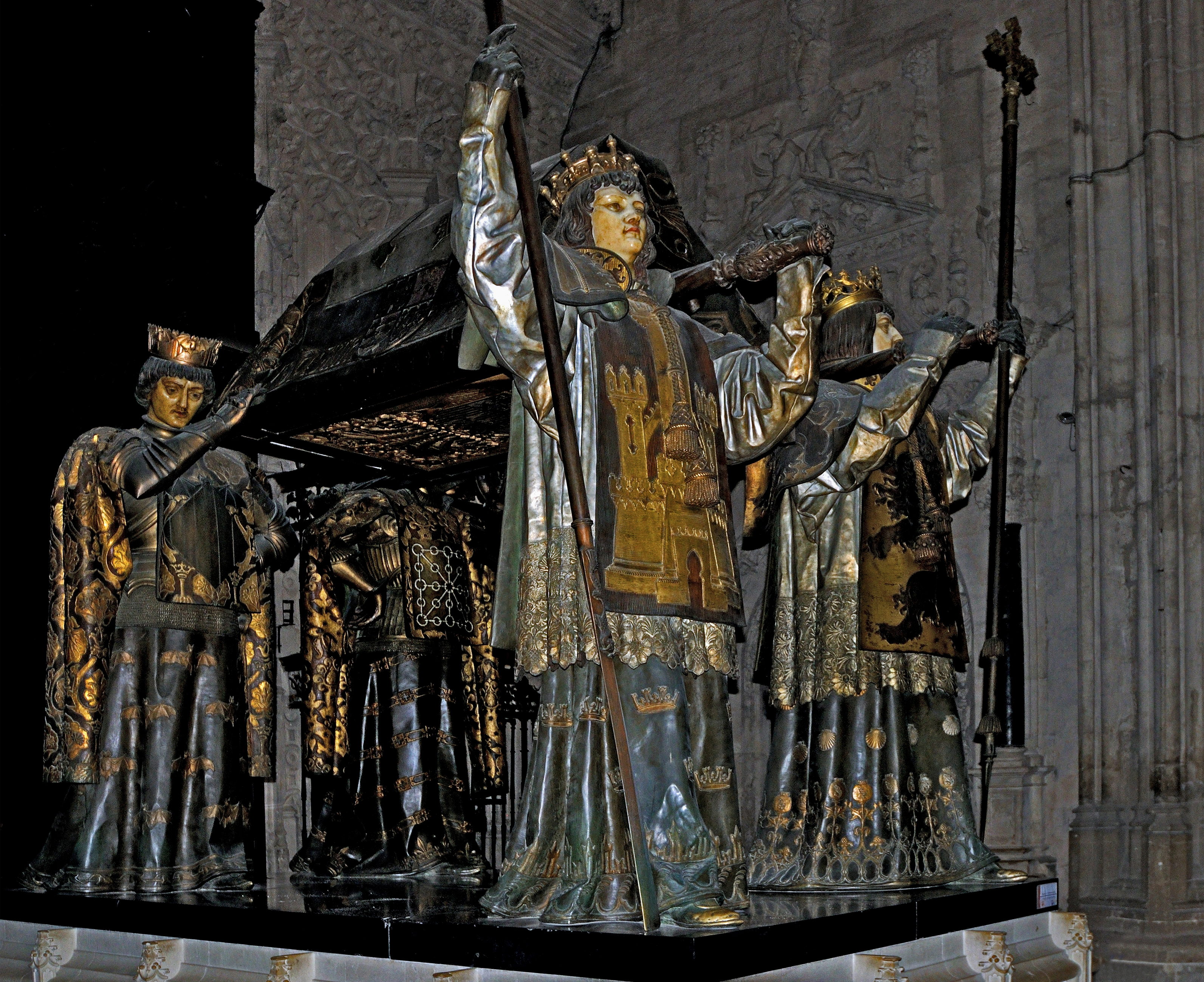 Tomb of Christopher Columbus in Seville Cathedral. Spain. The remains are borne by kings of Castile, Leon, Aragon and Navarre